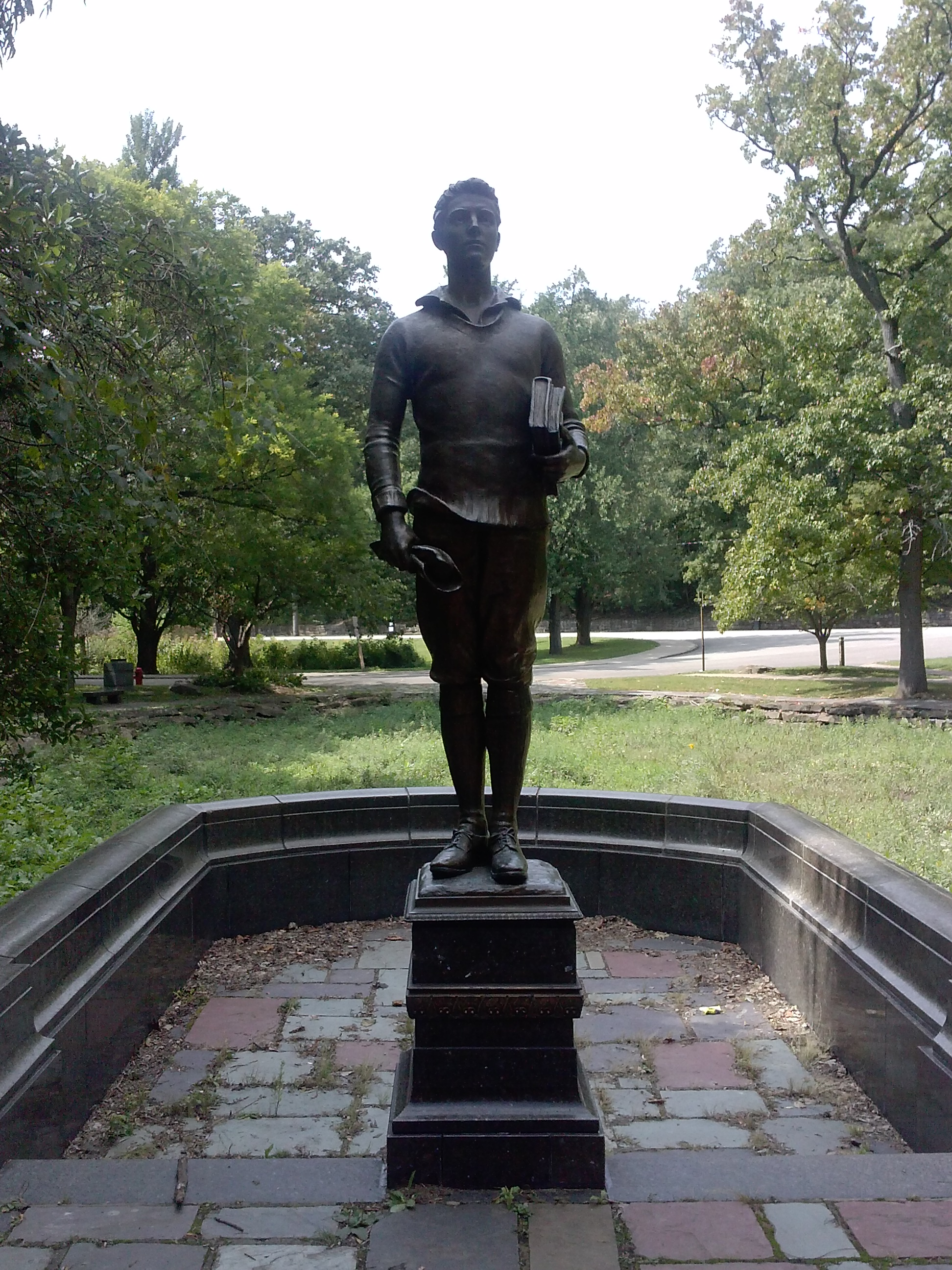 "The Spirit of American Youth" statue in George Westinghouse Memorial